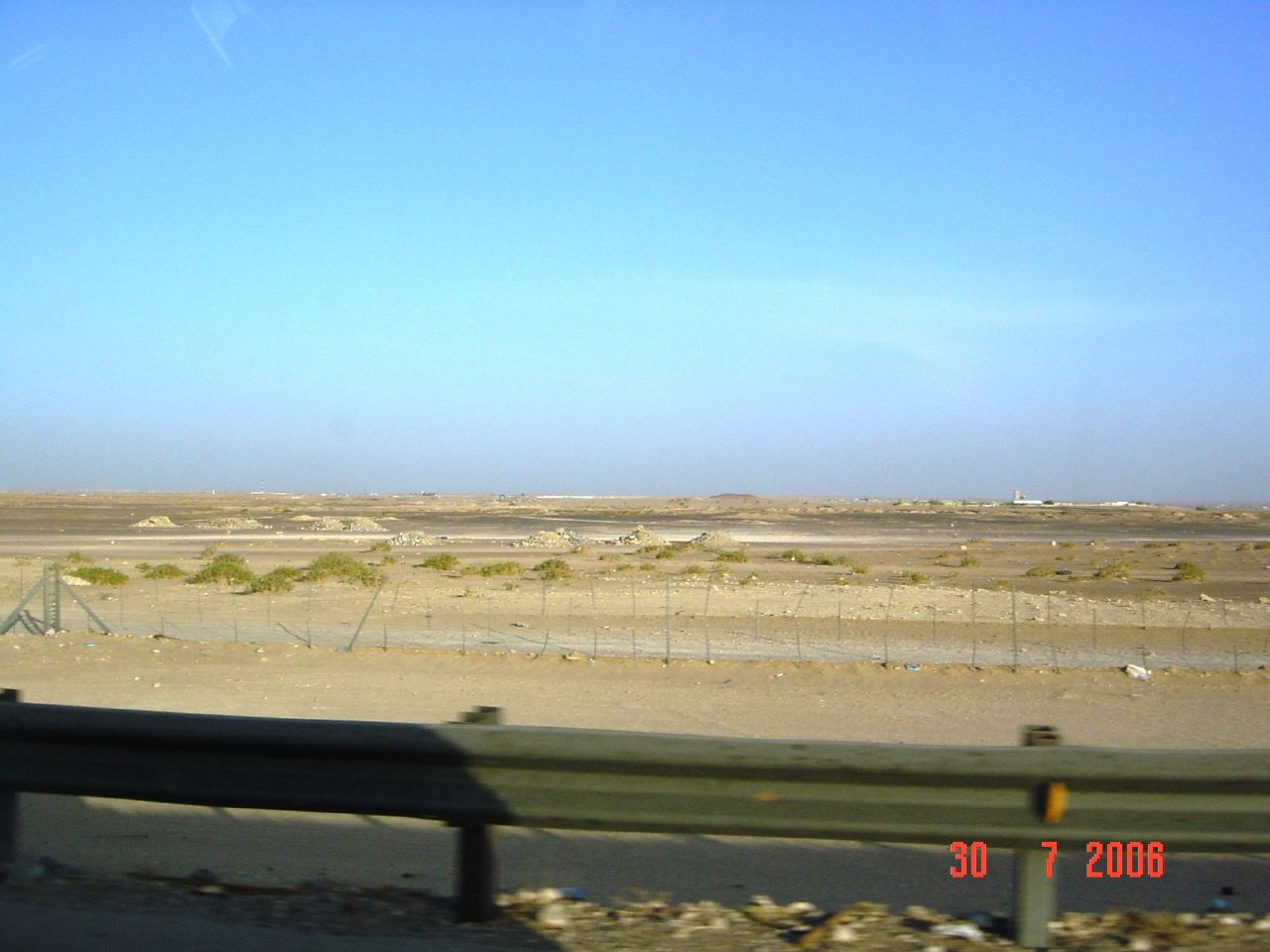 Road to Dammam